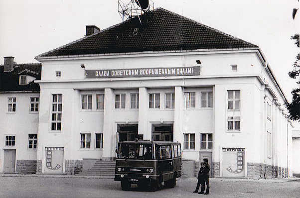 Progress-30-Bus in front of the garrison officers´ mess of the 39th Guards Rifles Division in Ohrdruf.